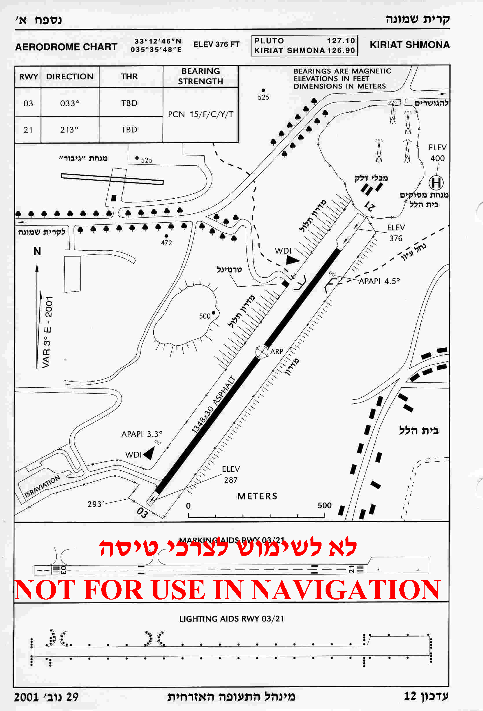 Kiryat Shmona Airport (Israel) chart